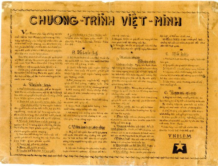 Political program of Viet Minh